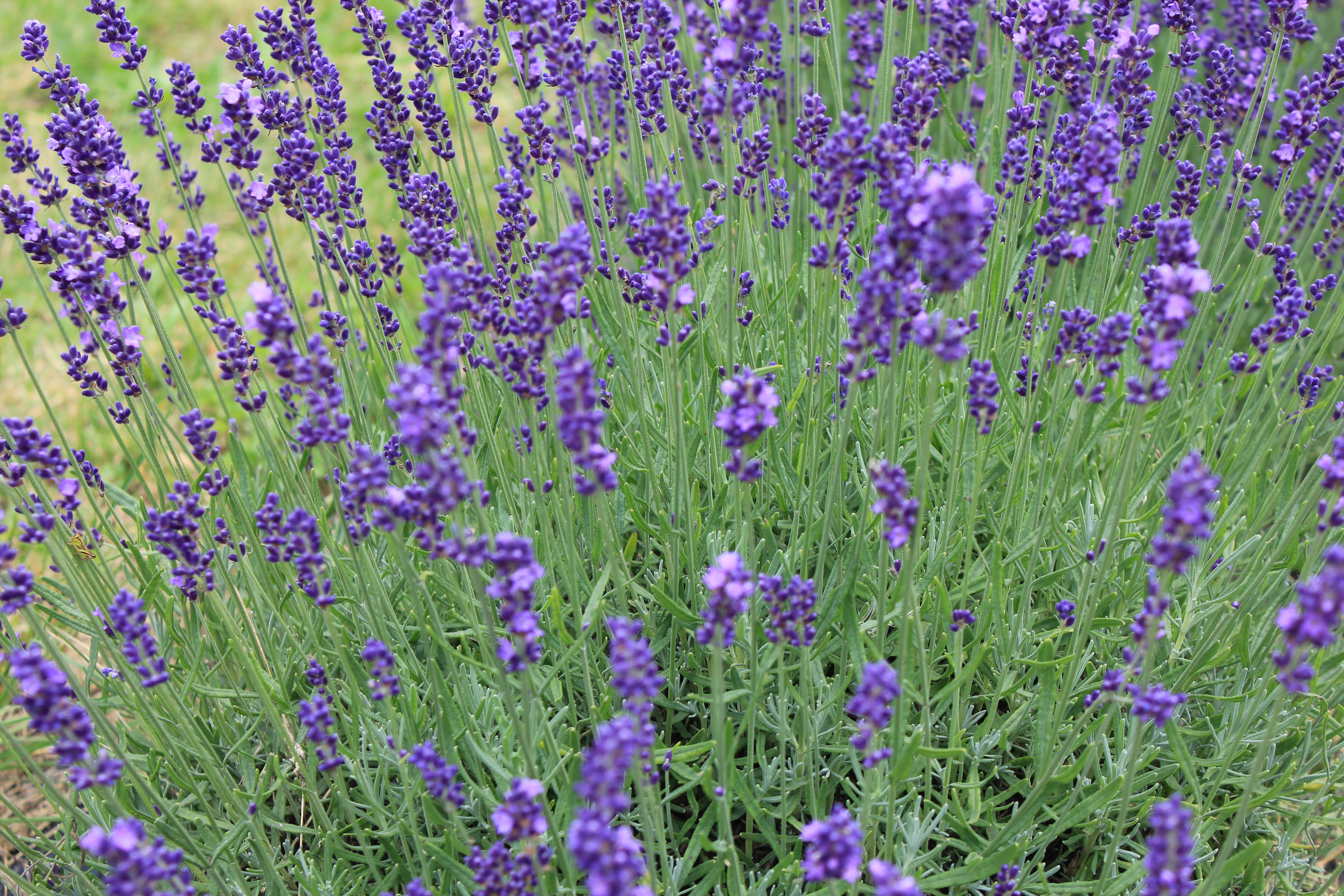 Lavandula Fields, Ontario, Canada